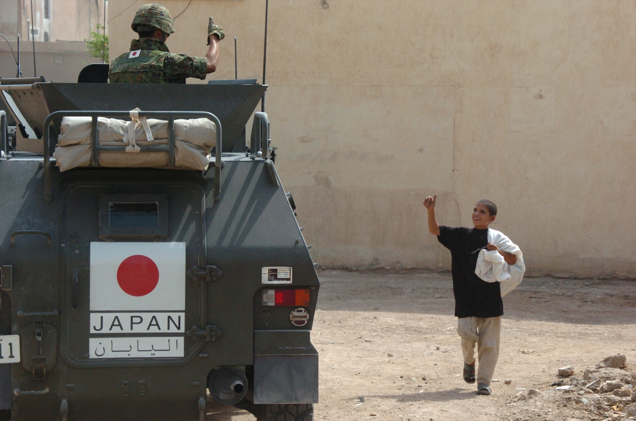 Title いい写真_R.jpg Album 国際平和協力活動等（及び防衛協力等） イラク人道復興支援特措法に基づく活動